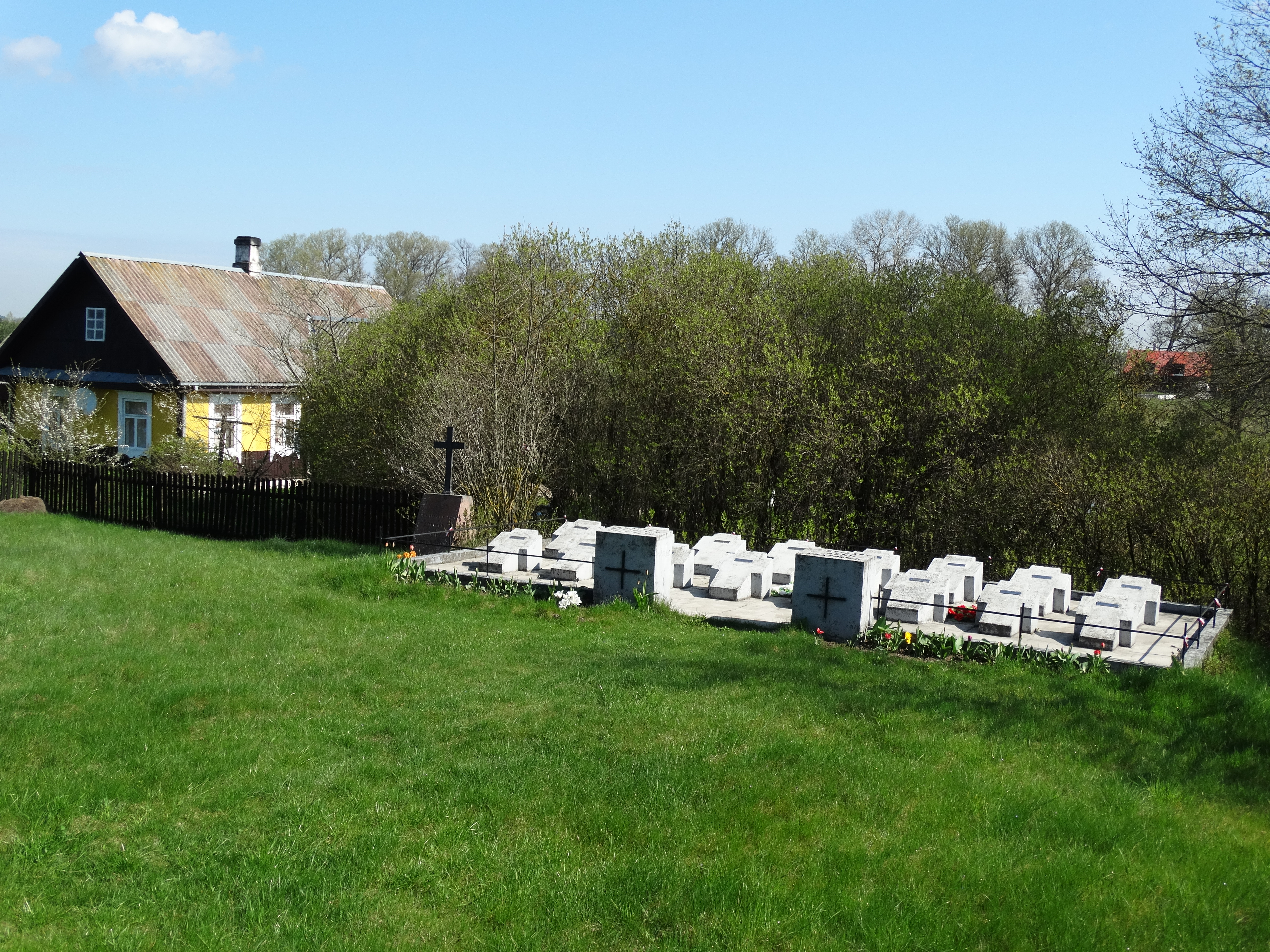 Graves of Armia Krajowa, Skurbutėnai, Vilnius District, Lithuania